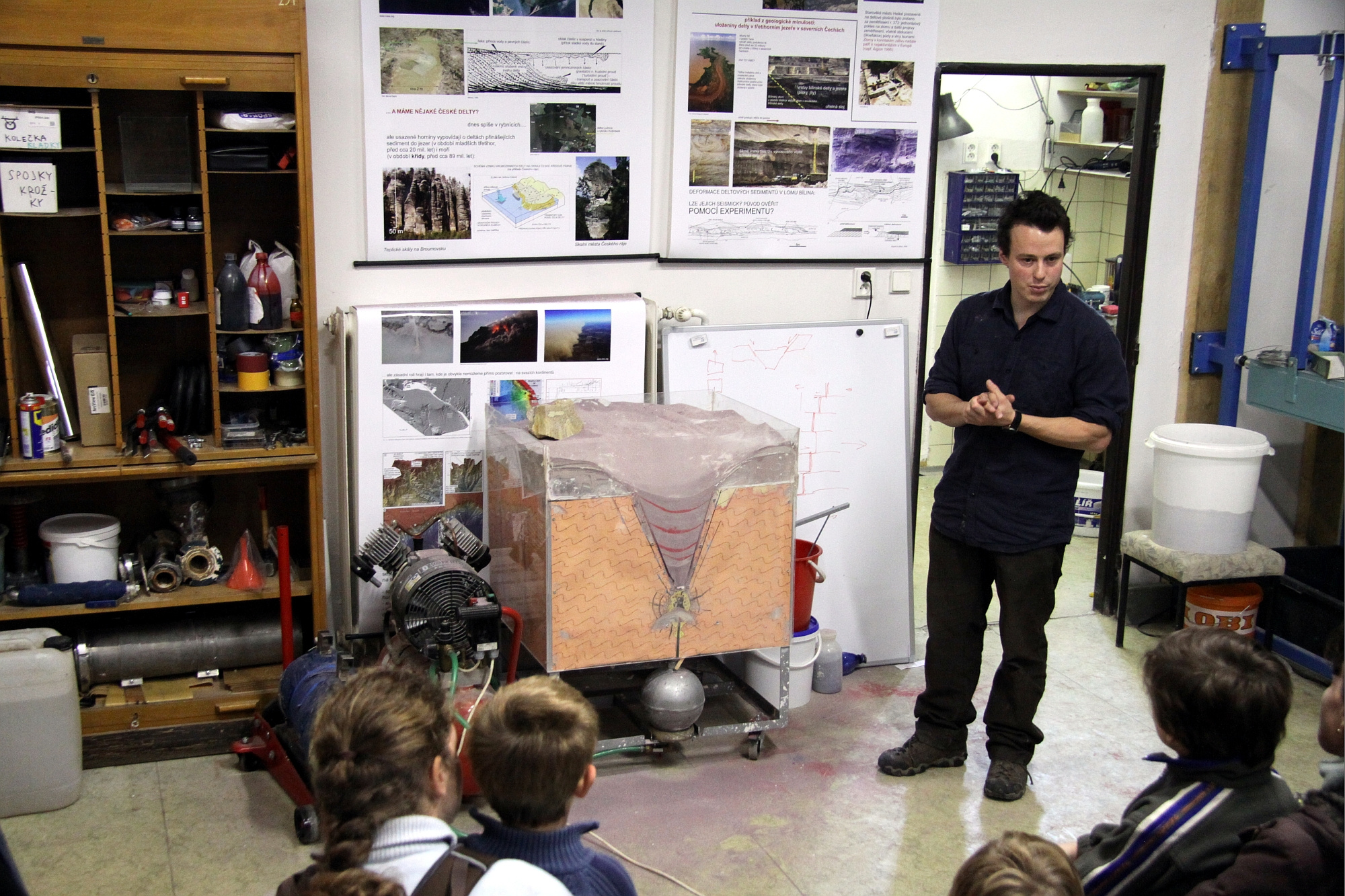 Presentation of experiment during "Týden vědy a techniky AV ČR" in 2012, Institute of Geophysics, Czech Academy of Science, Prague, Czech Republic